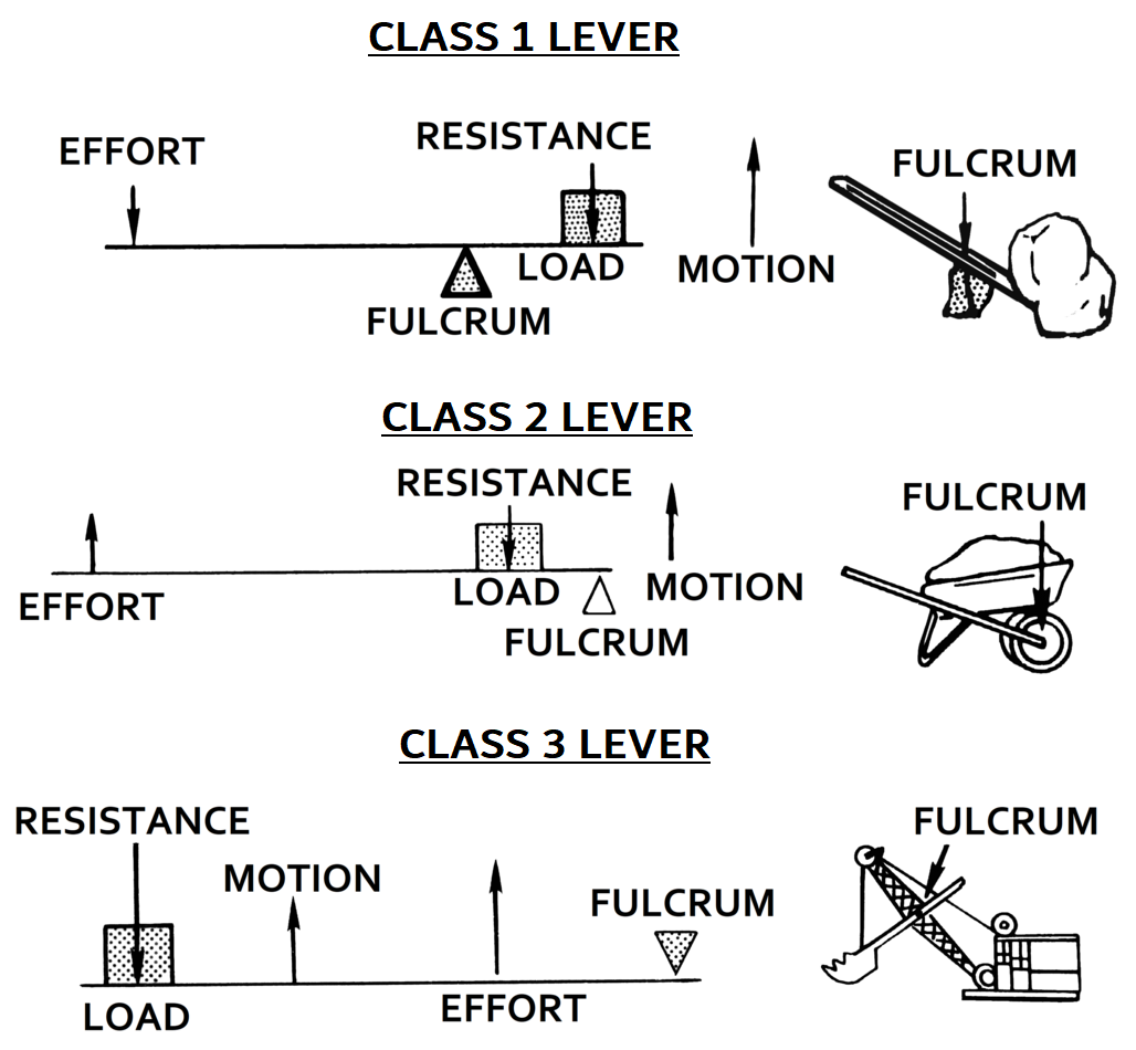 A diagram of the three different classes of levers, including line drawings of real-world examples for each class.